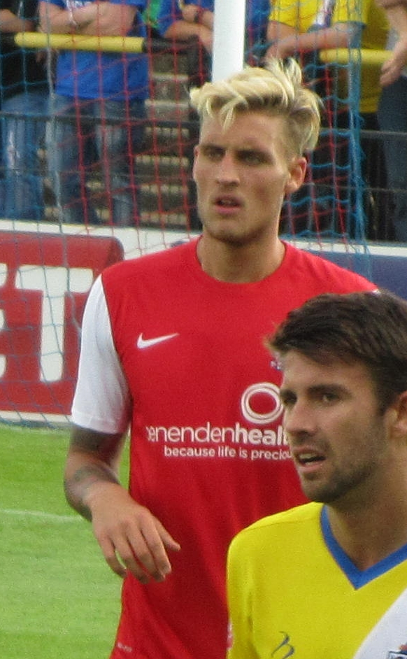 George Taft playing for York City against AFC Wimbledon at Bootham Crescent, York on 7 September 2013